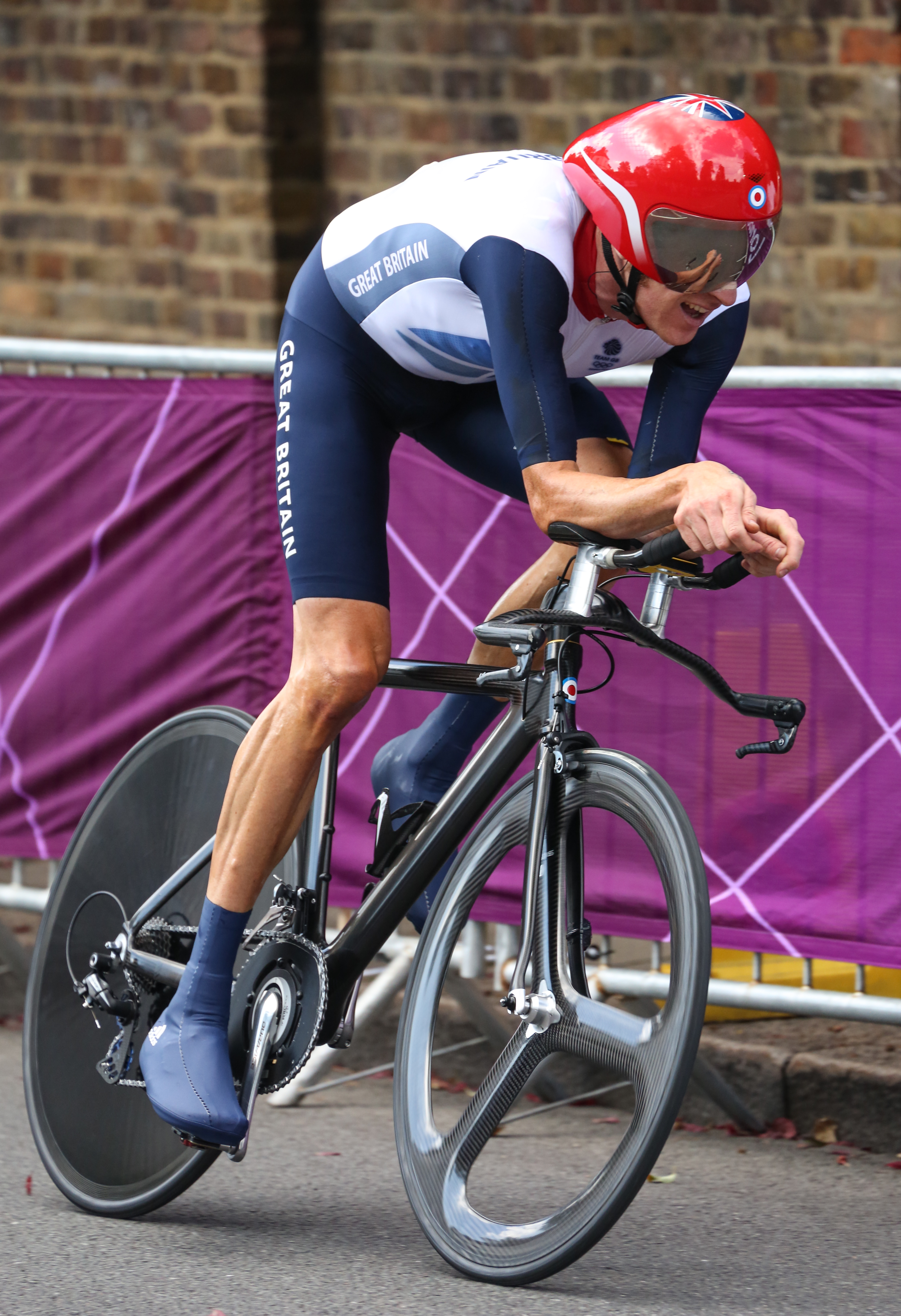 Bradley Wiggins competing in the London 2012 Men's Olympic Time Trial.